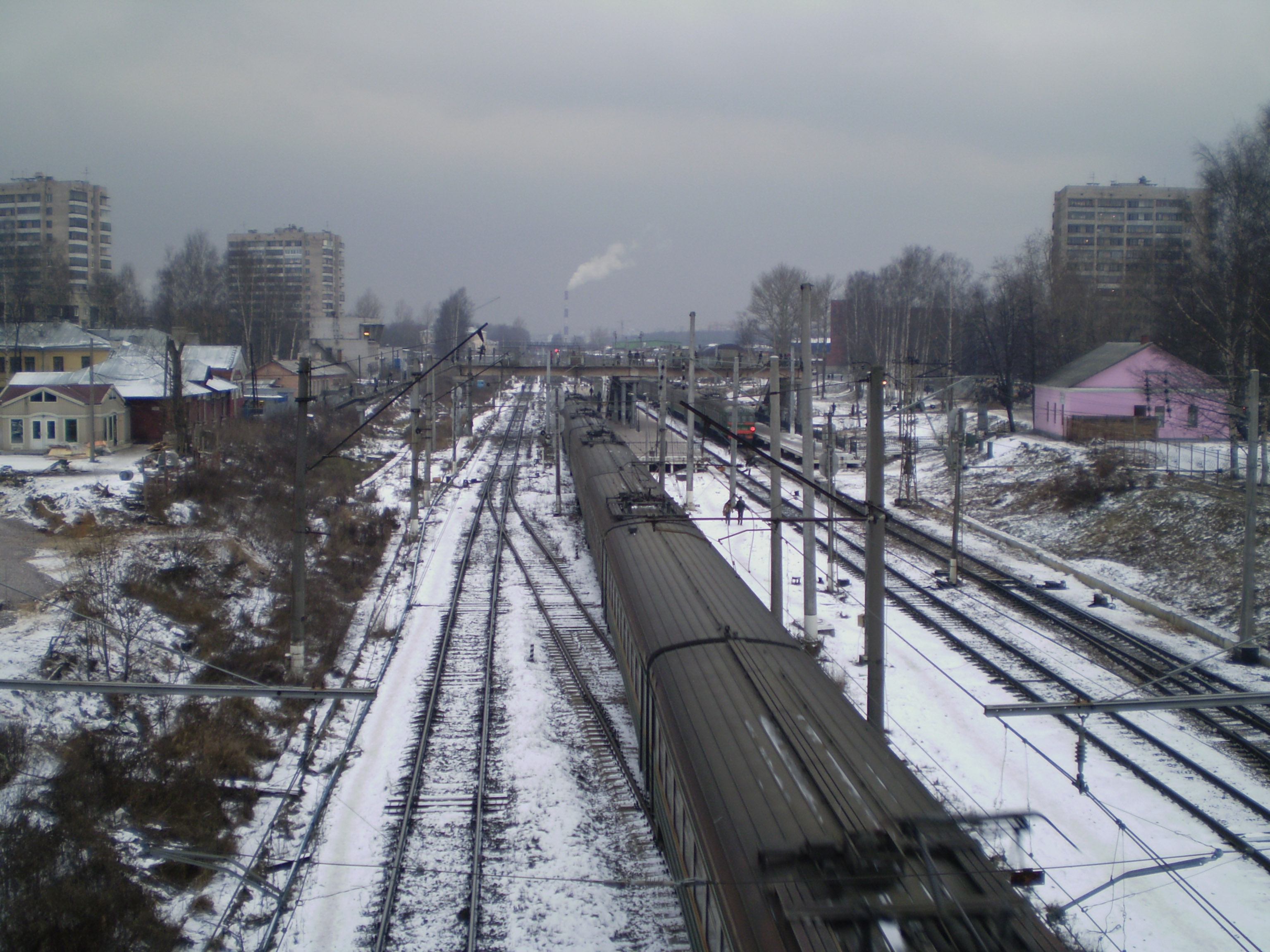 Piskaryovka railway station in Saint Petersburg. The view from Piskaryovski overbridge. December 1, 2007.